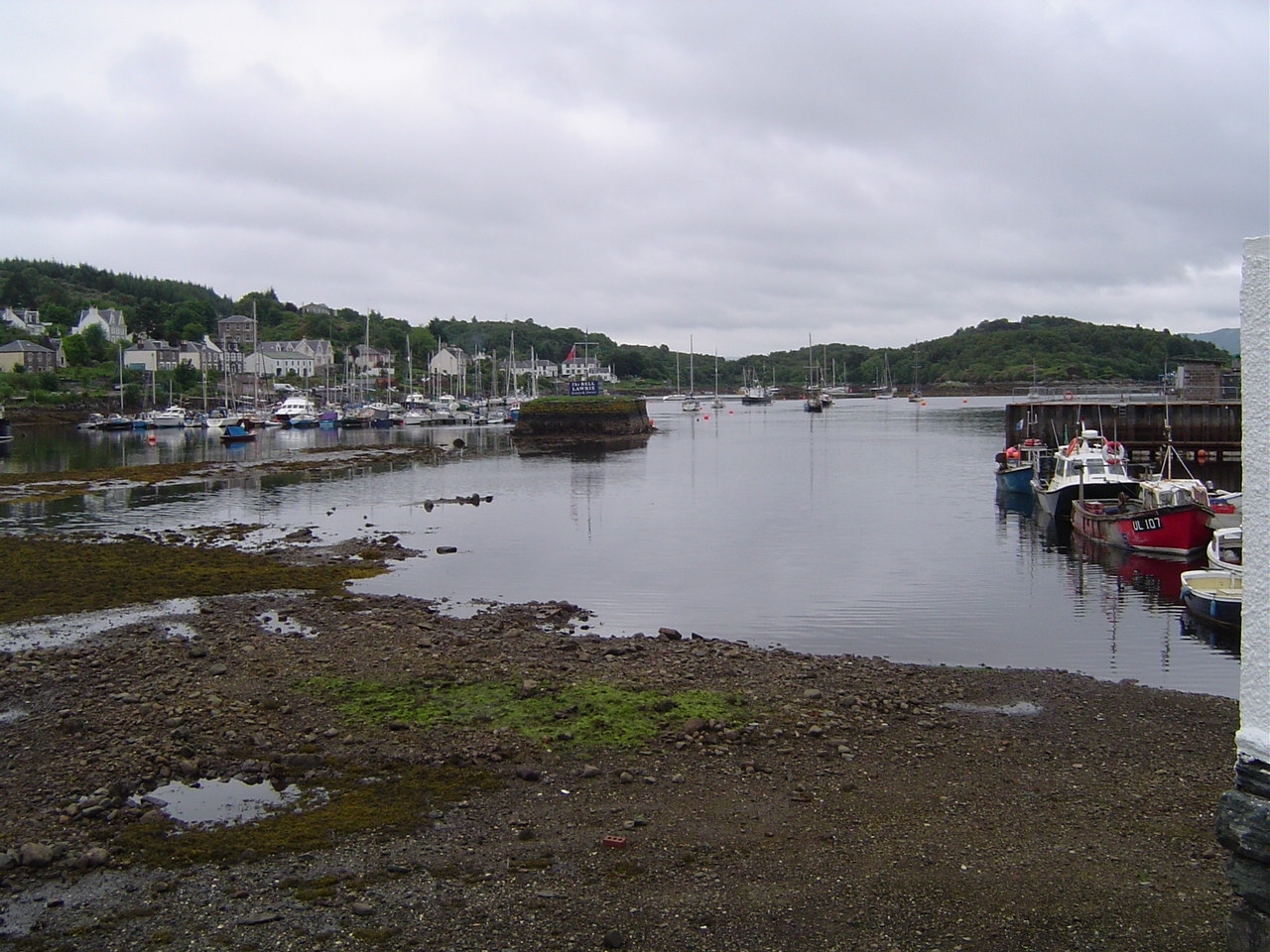 Photograph taken by Chris Bazley-Rose and made freely available in accordance with Wikipedia guidelines.